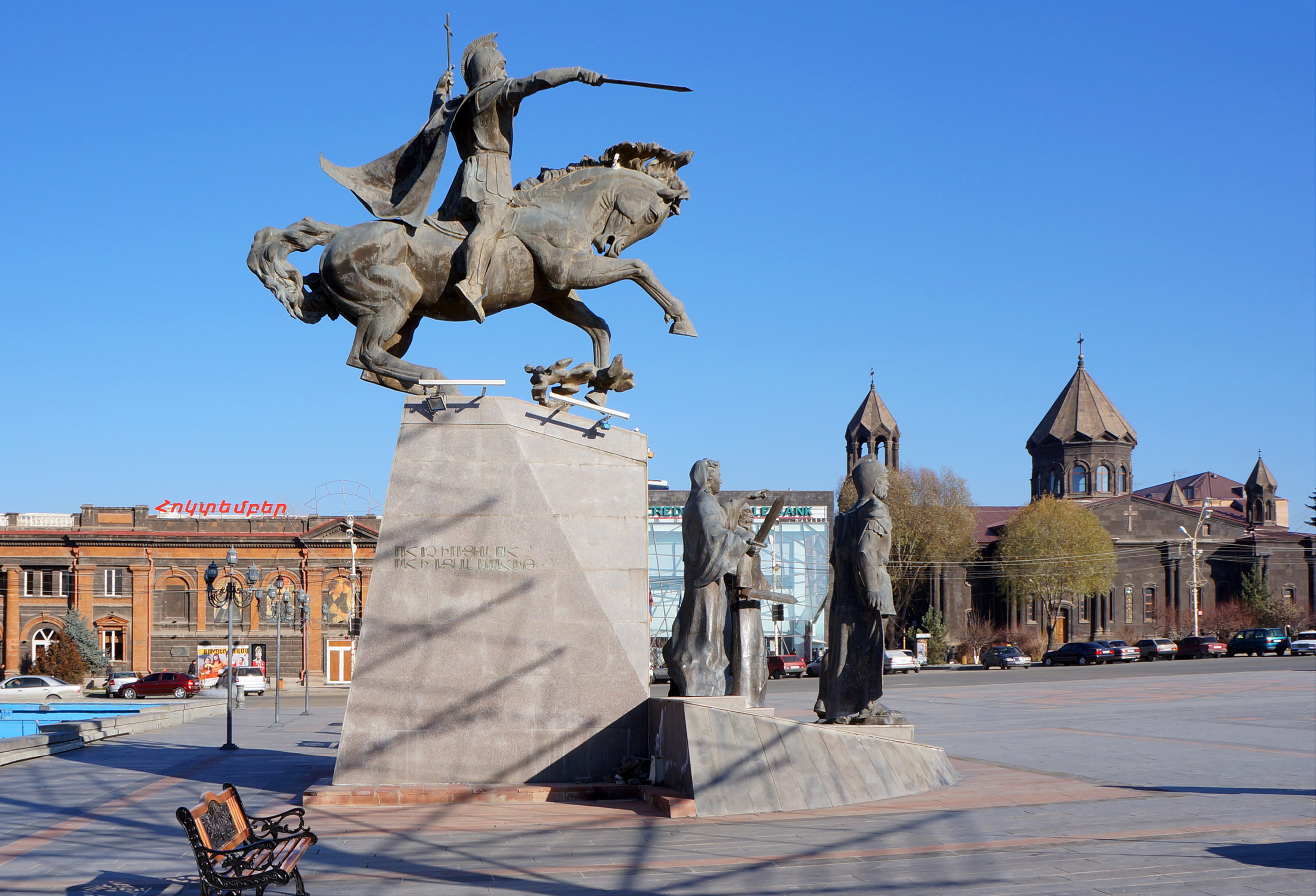 Vardan Mamikonian statue and Holy Mother of God Cathedral in Gyumri, Armenia